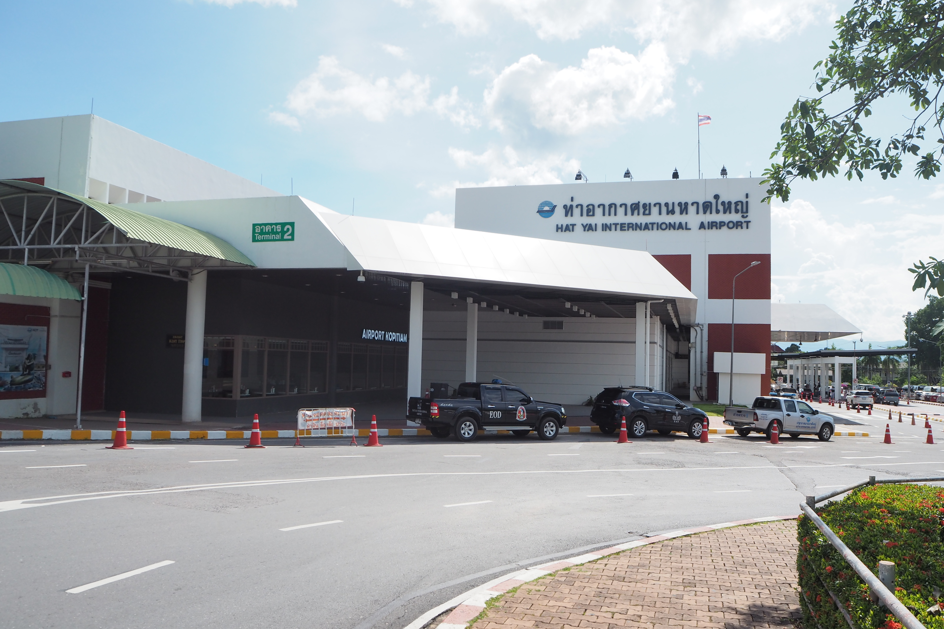 HDY on Board in Terminal